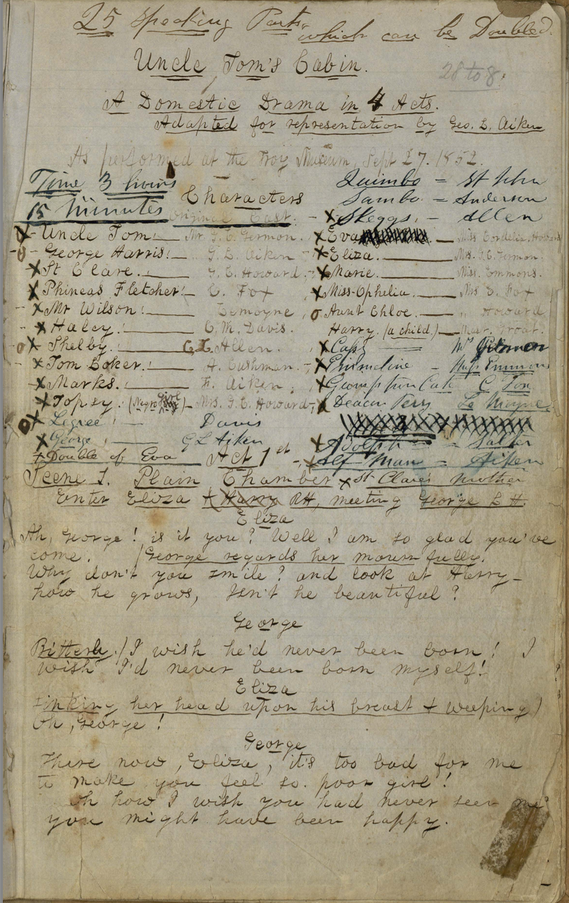 This is the first full page of George Aiken's original manuscript for his stage adaptation of Uncle Tom's Cabin from the first performance at Peale's Troy Museum. The manuscripts are part of the George C. Howard and Family Collection at the Harry Ransom Center.